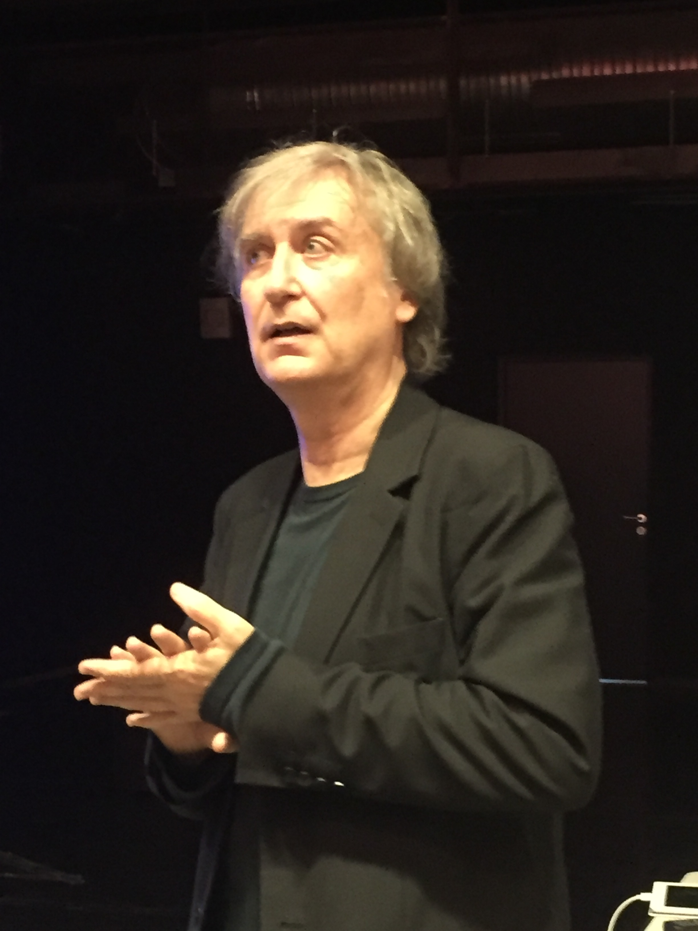 French cartoonist Plantu holding a conference at the Lycée Giocanti in Bastia (Corsica, France) on Wednesday October 7, 2015. Photo taken with the camera of my iPhone 6.